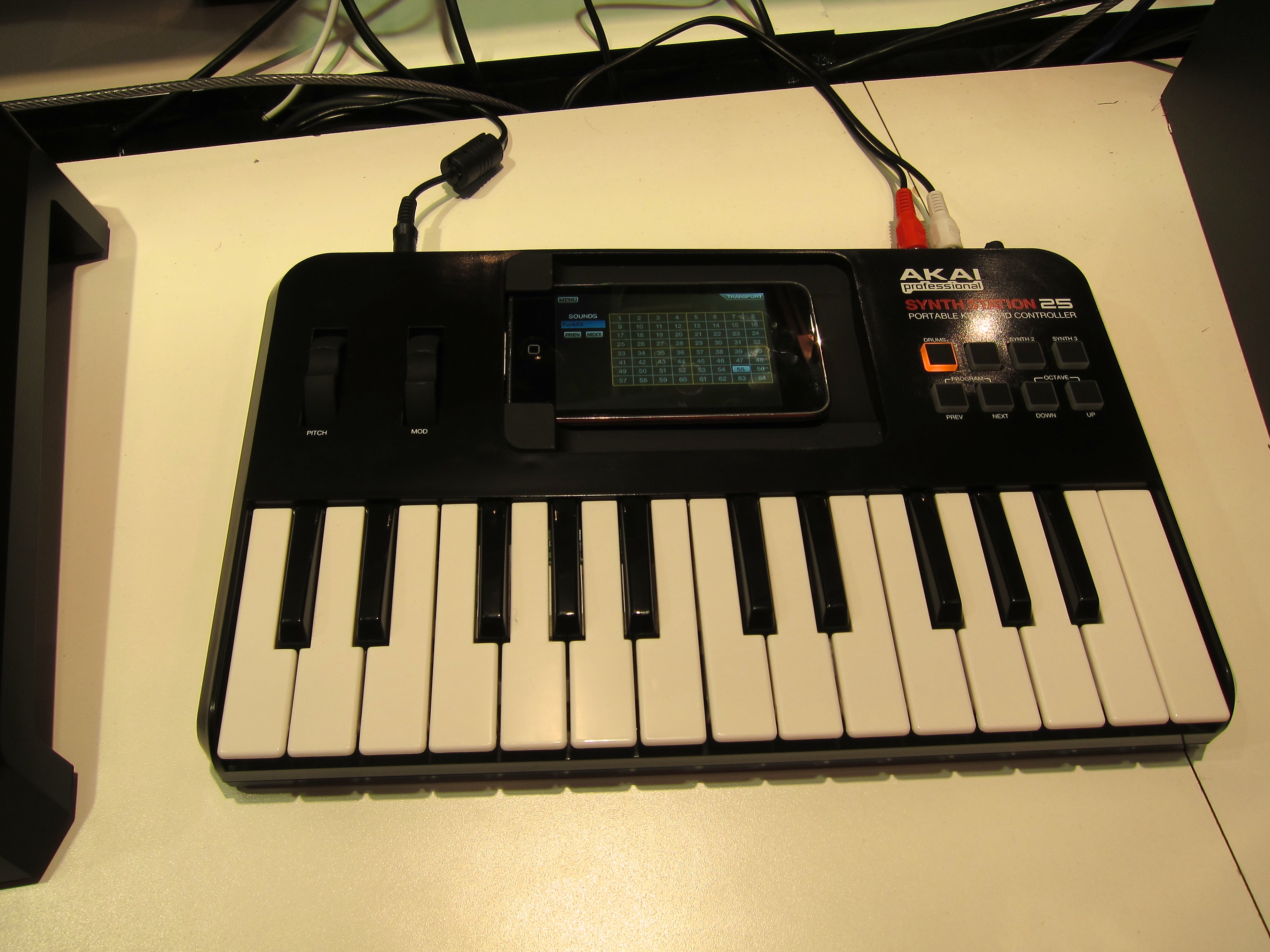 Akai SynthStation25 Portable music production studio with MIDI keyboard for iPhone/iPod touch Pics of stuff from the Summer NAMM show 2010 in Nashville Tennessee. I will add more info on what's in the pics as time allows.